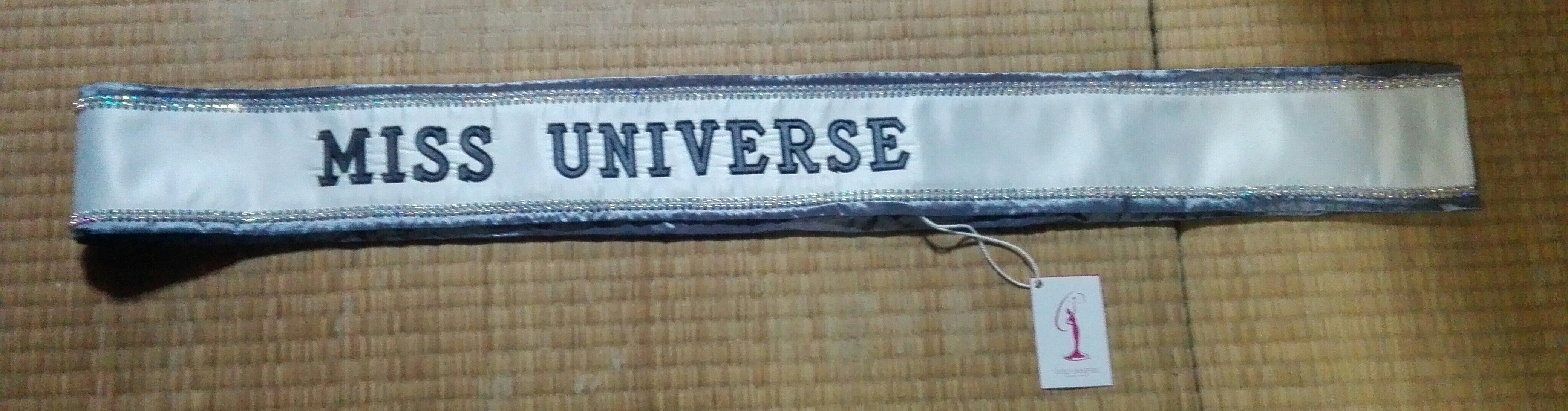 Miss Universe Sash